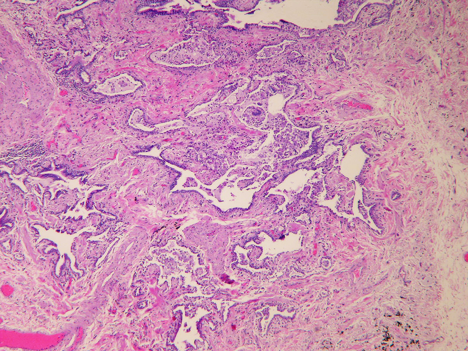 UIP (Usual interstitial pneumonia)-Honeycomb fibrosis Honeycomb fibrosis; spaces lined by respiratory epithelium separated by thick bands of mildly inflamed fibrous connective tissue and smooth muscle. These spaces are mostly dilated terminal airways; some are alveoli with a metaplastic epithelial lining. This type of lung tissue is incapable of performing the gas diffusion function of the lung.